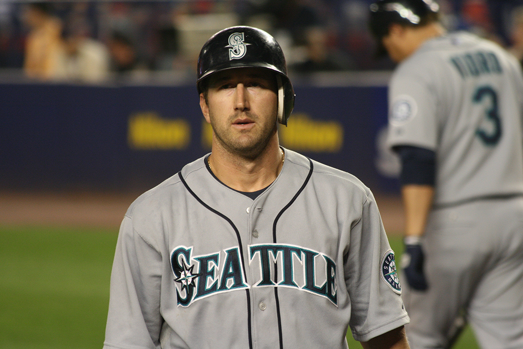 Willie Bloomquist, then of the Seattle Mariners, walks back to the dugout on the 3rd base side of Shea Stadium after striking out looking during a game against the New York Mets on June 25th, 2008.